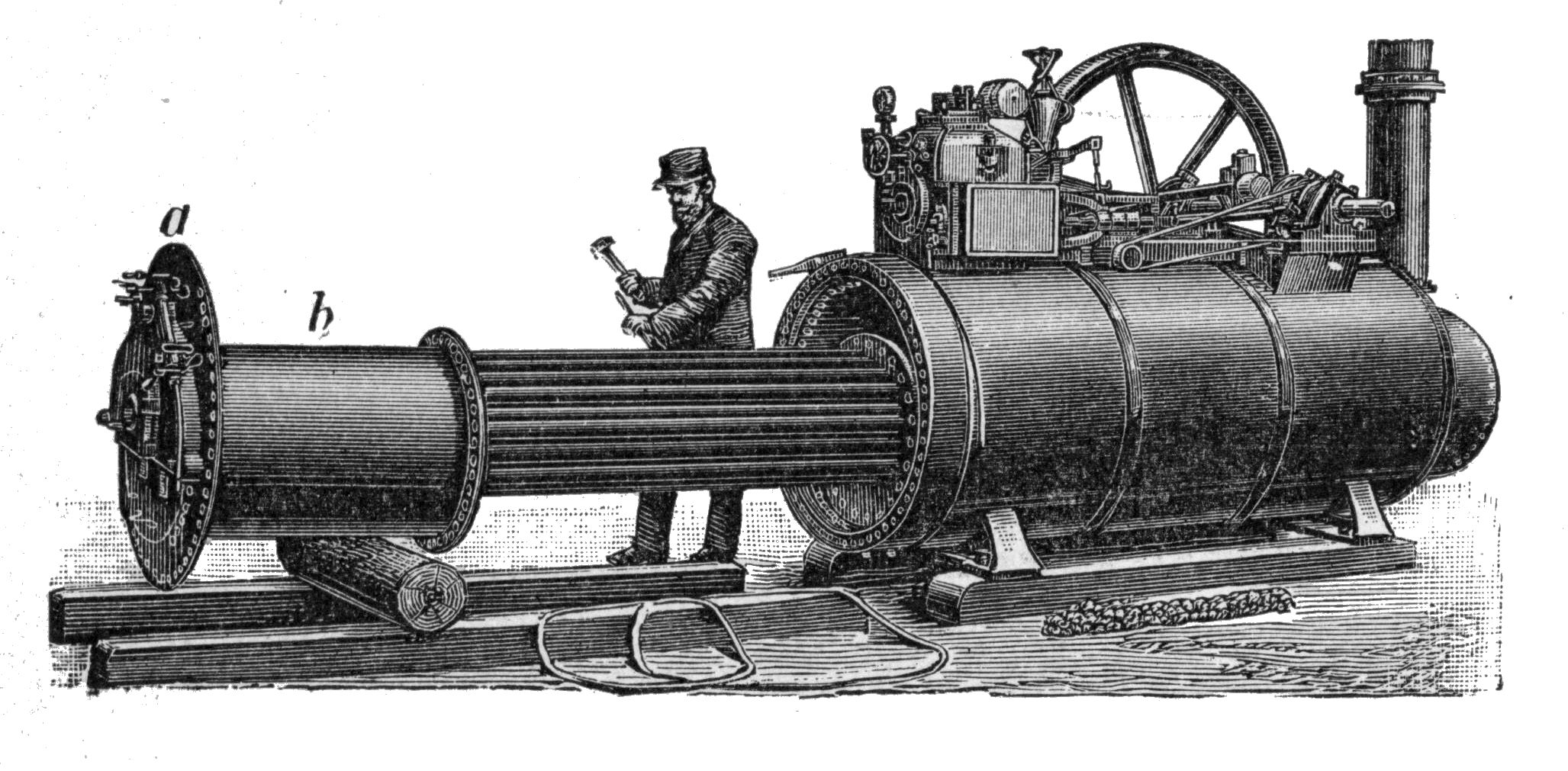 Launch boiler, with firebox withdrawn for maintenance.